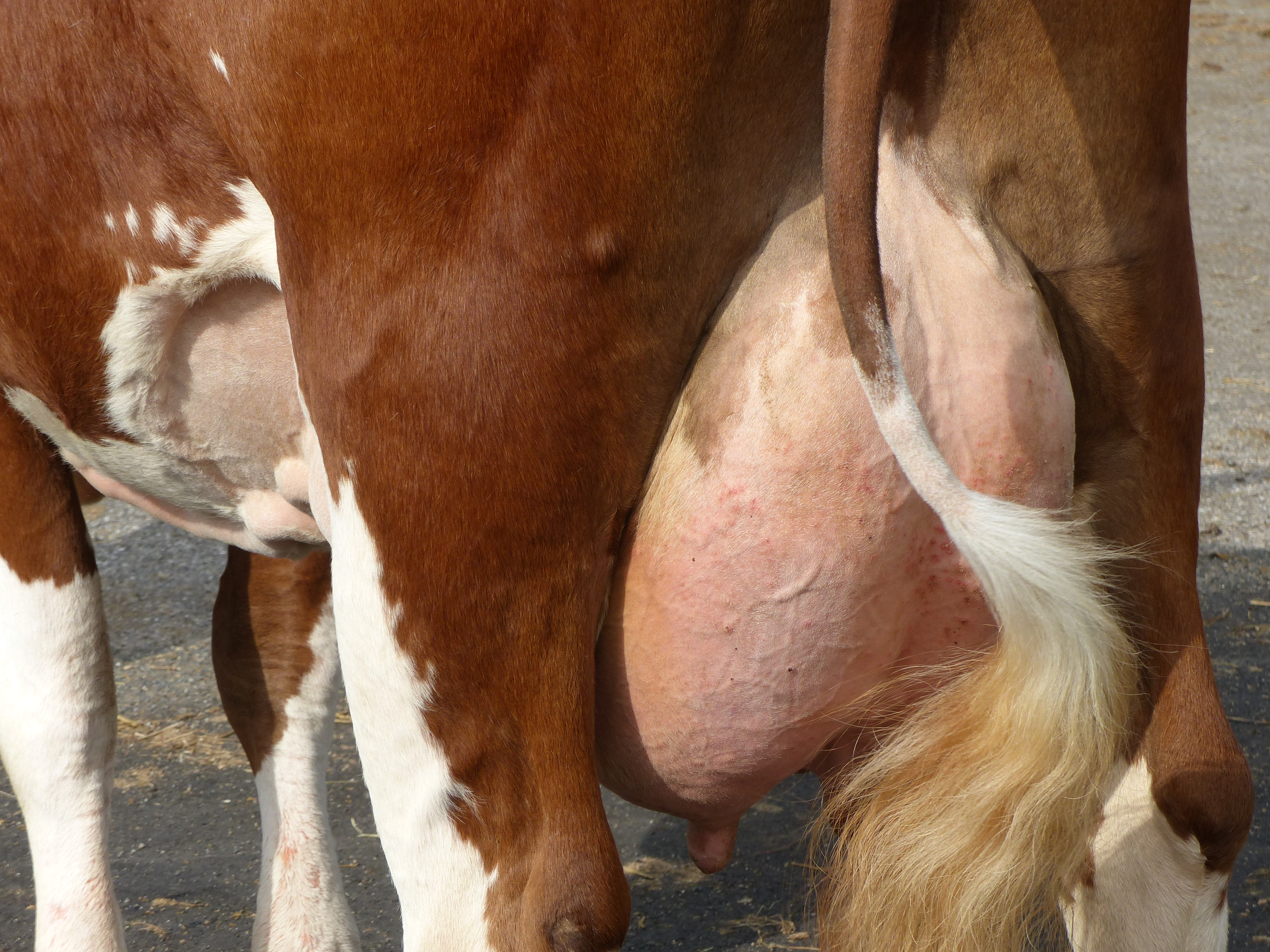 Pie rouge des plaines cow udder, Morbihan, France